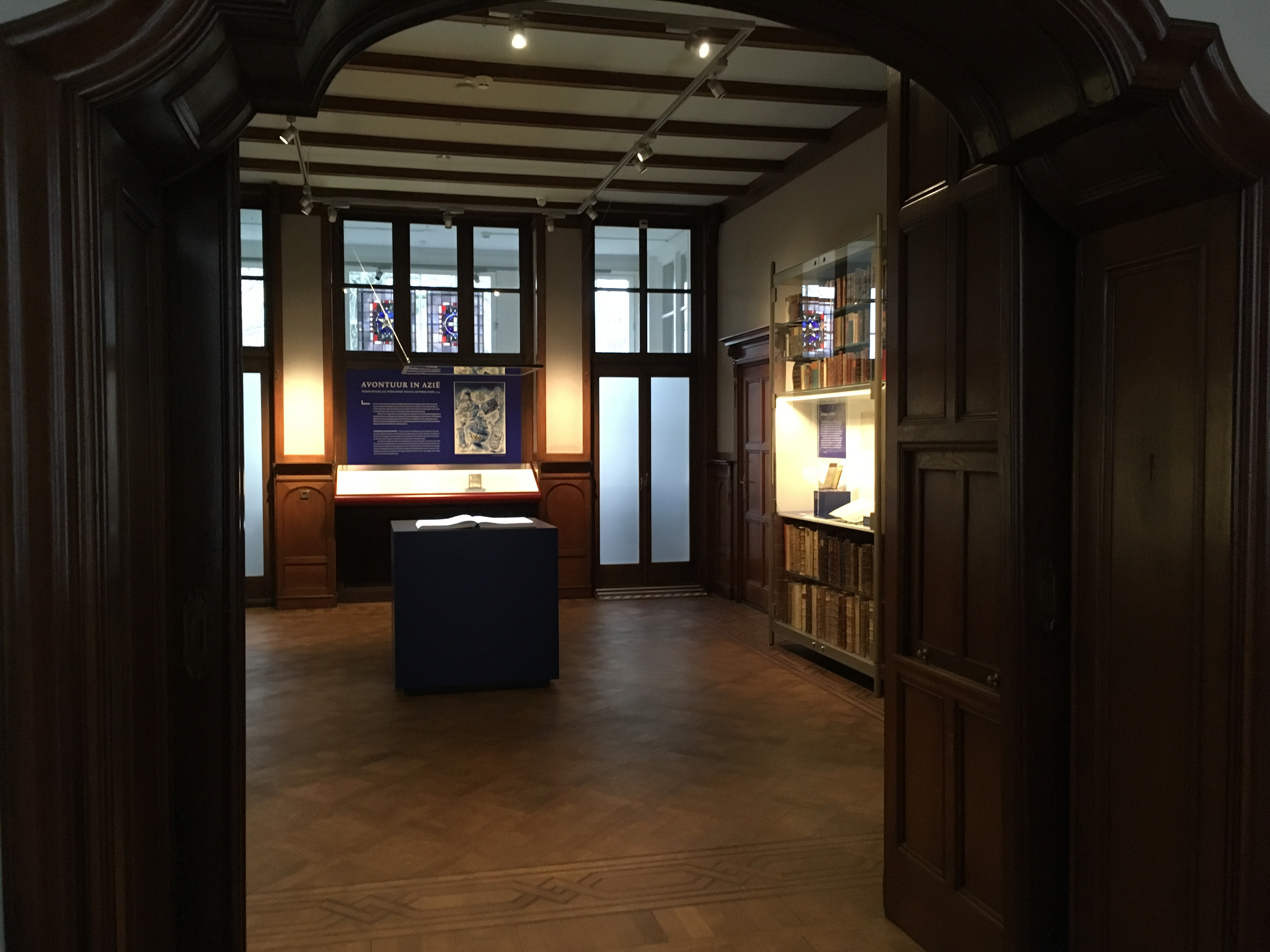 Freemason Museum The Hague, interior